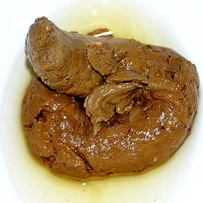 Poo